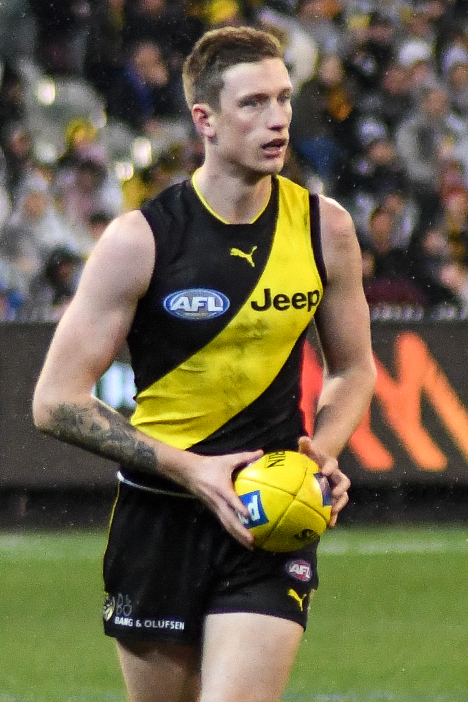 Connor Menadue of Richmond during the 2018 AFL round 20 match between Richmond and Geelong at the Melbourne Cricket Ground on Friday, 3 August 2018 in Melbourne, Victoria.